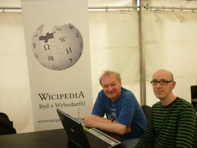 The poet Les Barker (left) at the Maes' Welsh language technology festival, held at the Cefnlen tent at the 2012 National Eisteddfod of Wales